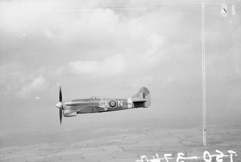 Royal Air Force- Air Defence of Great Britain (adgb), 1943-1944. Hawker Tempest Mark V, JN766 'SA-N', of No. 486 Squadron RNZAF based at Castle Camps, Cambridgeshire, in flight.